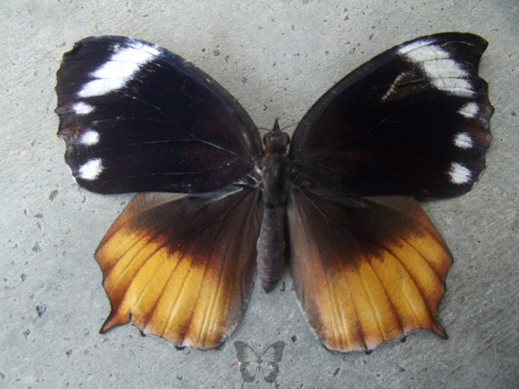 Tailed Palmfly UP